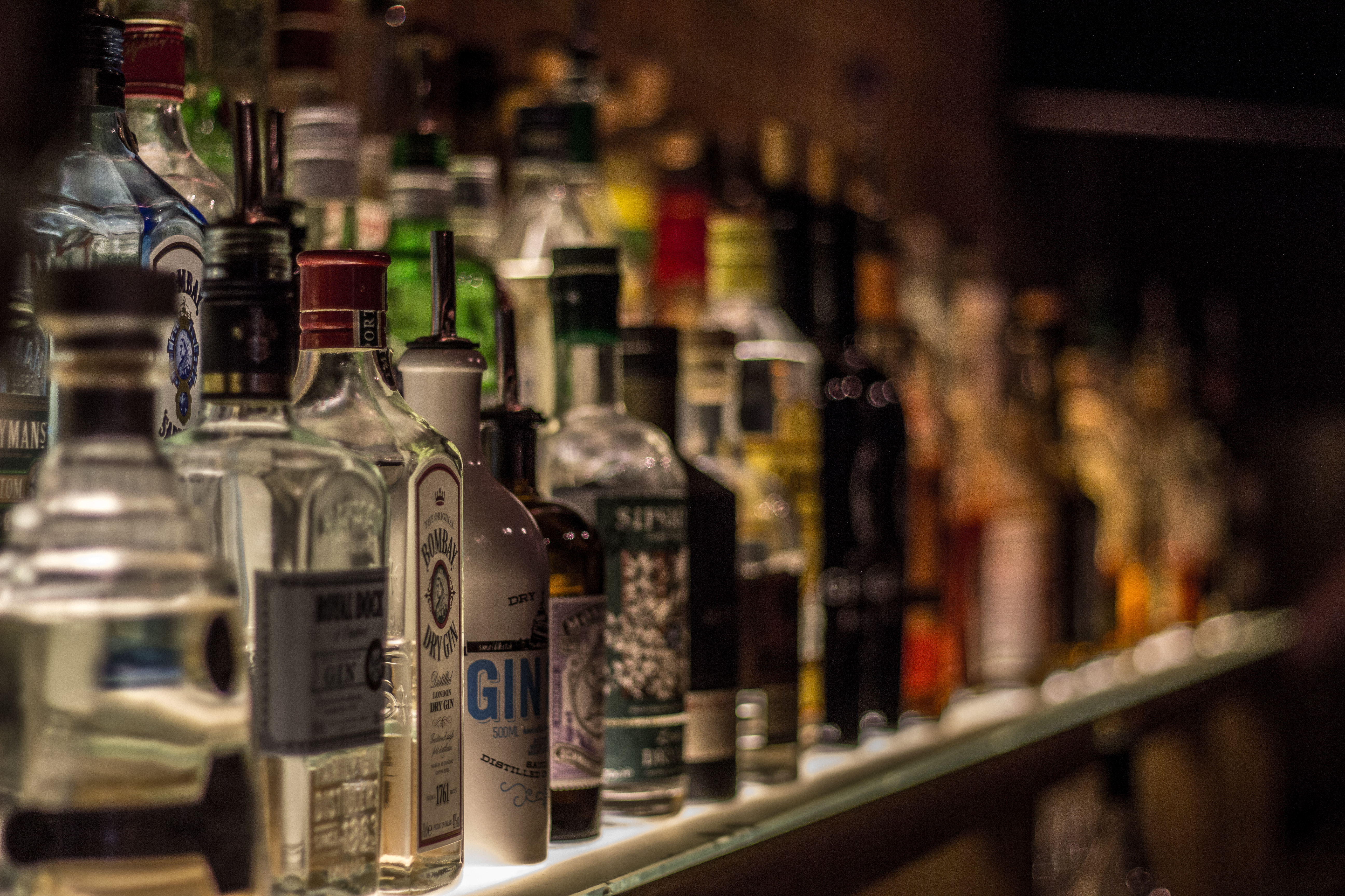 Backbar with various bottles of spirits in the bar "Boilerman", Hamburg, Germany.